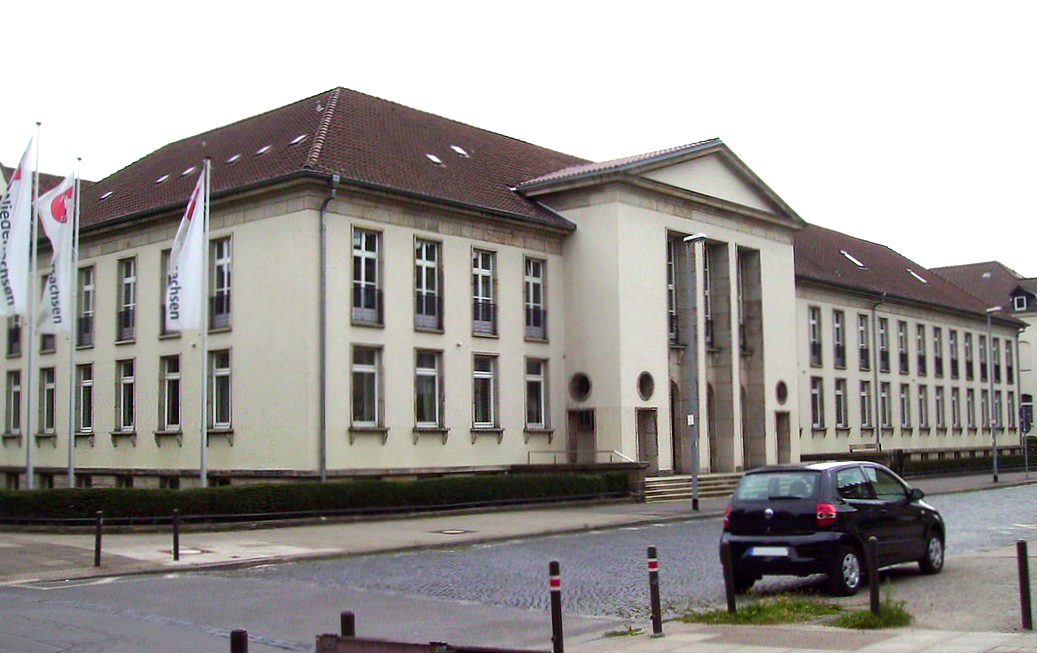 The office of the prime minister of the German federal state of Lower saxony in Hanover, Planckstraße 2